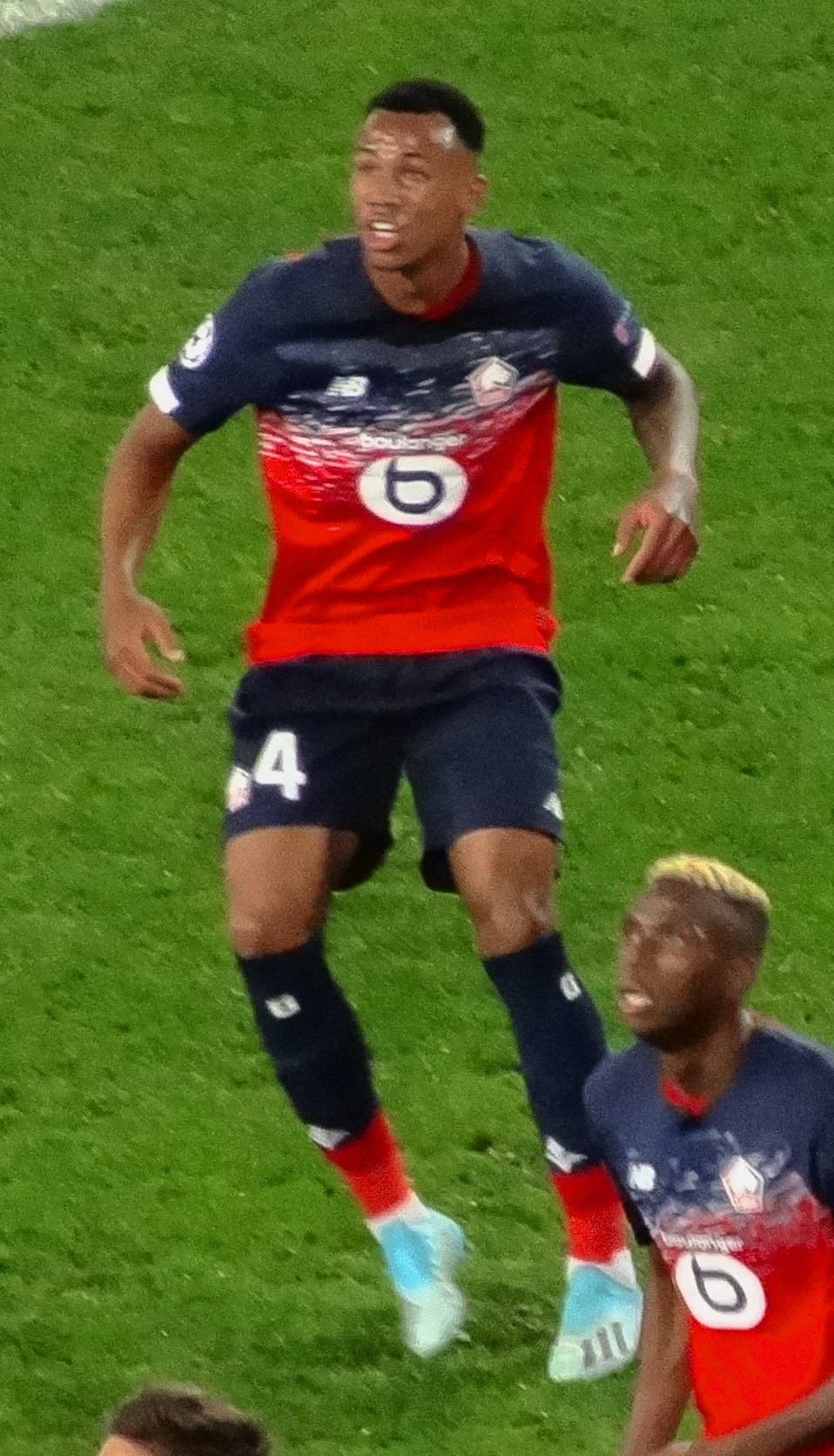 Gabriel (LOSC)